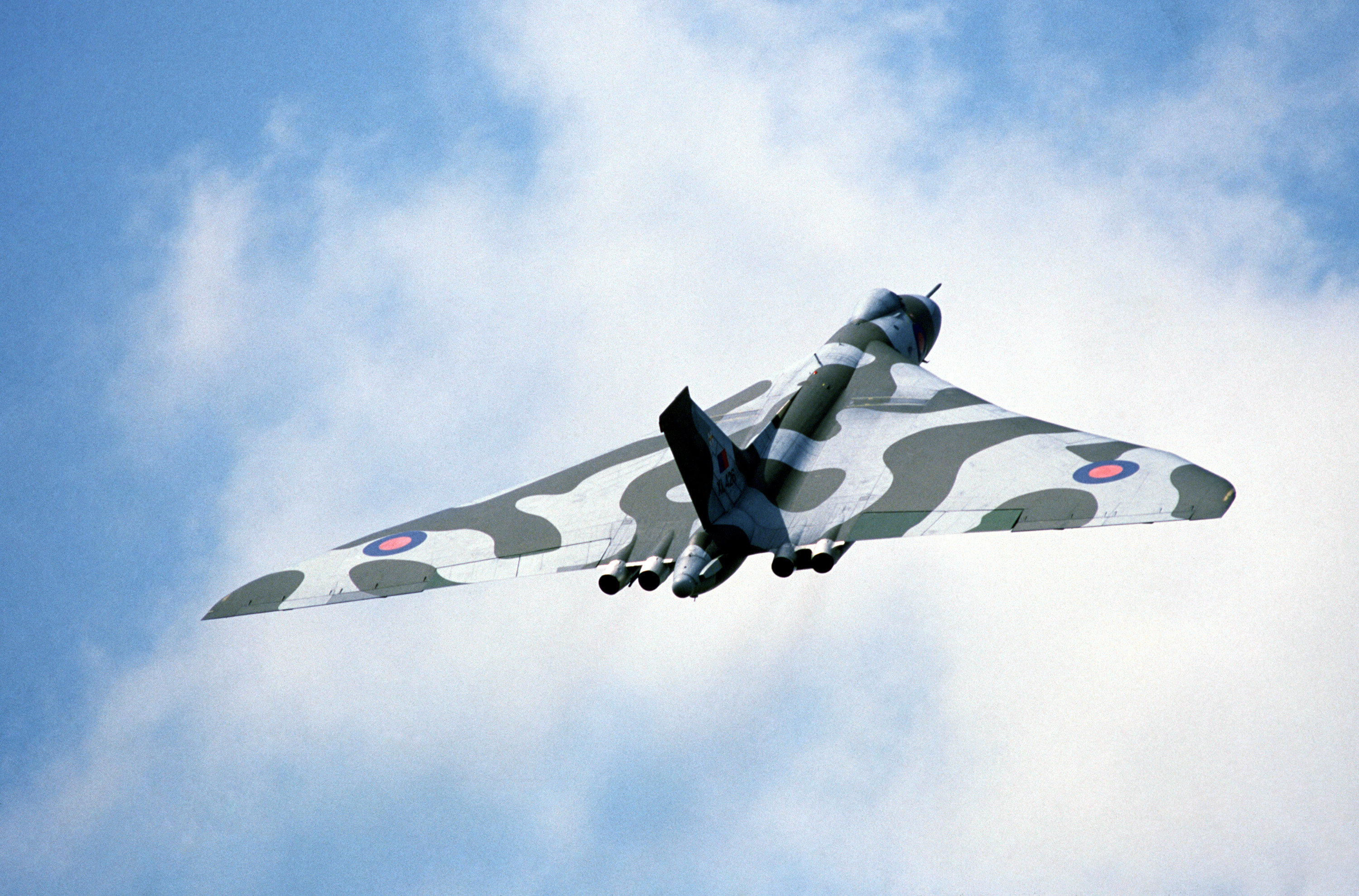 A Royal Air Force Avro Vulcan Display Team Vulcan B. Mk 2 aircraft performs during Air Fete '85.